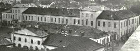 Palace of Radzivil in Harodnia (Belarus)